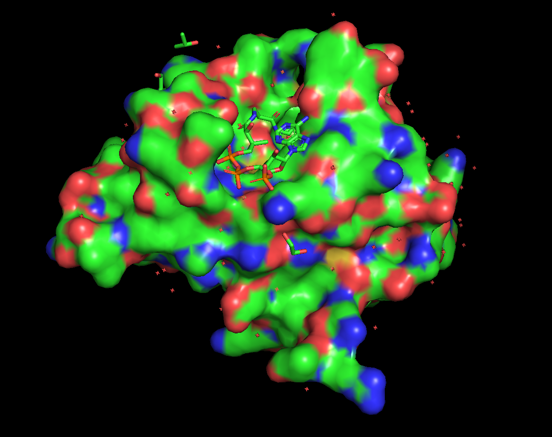 Propionyl-CoA interacting with the active catalytic site of Gen5 as a cofactor.